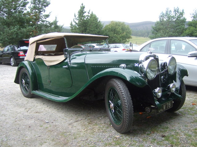 An ALVIS tourer in Braemar Castle car park Alvis Speed 25 model? Alvis Firebird, 4-door tourer body by ? (DVLA) first registered 2 January 1935, 1842cc